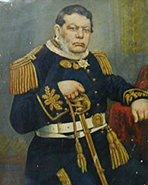 David Canabarro, president of the Juliana Republic (1839).